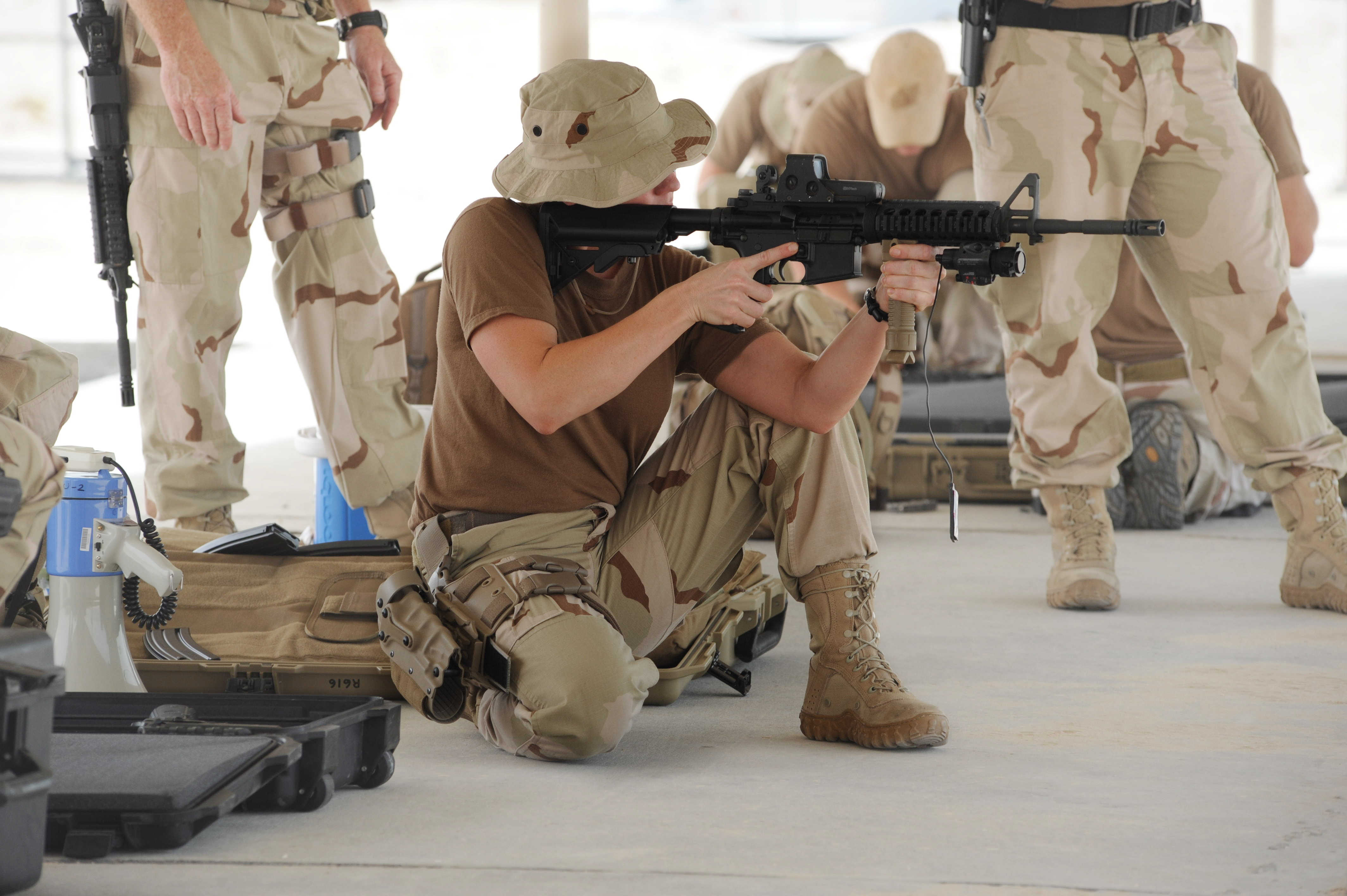 BAHRAIN (May 19, 2010) Hospital Corpsman 2nd Class Ashley Wagner, assigned to Command Task Group 56.1, practices dry firing an M-4 service rifle at Shank-Sa Weapons Range. (U.S. Navy photo by Mass Communication Specialist 2nd Class Kathleen A. Gorby/Released)